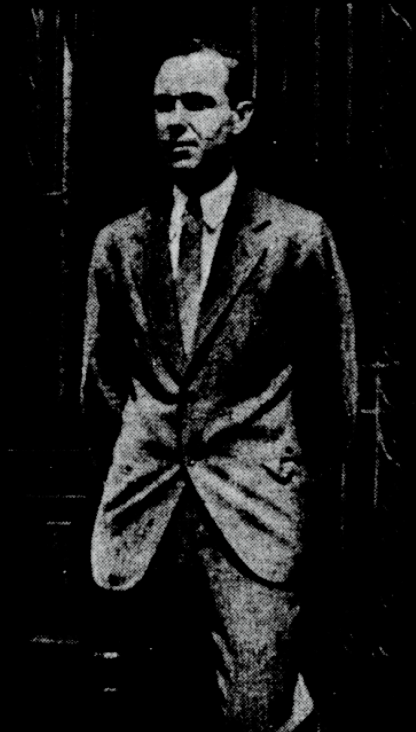 Corliss Lamont American socialist philosopher in 1934.